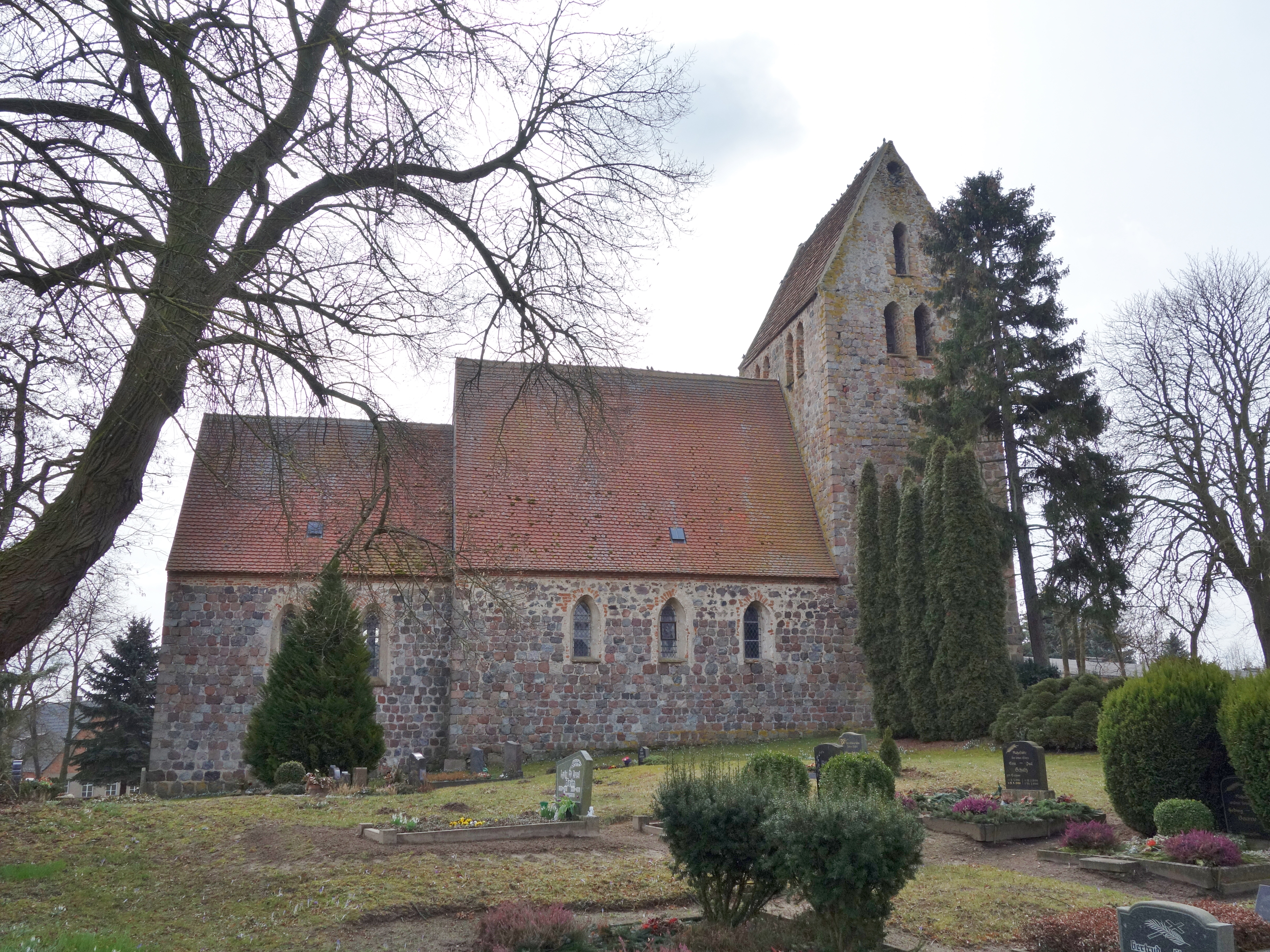 North-eastern view of church in Dedelow, Prenzlau municipality, Uckermark district, Brandenburg state, Germany